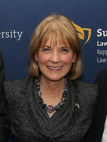 Martha Coakley spoke and answered questions about her campaign for Massachusetts governor at the Rappaport Center for Law and Public Service at Suffolk Law School.